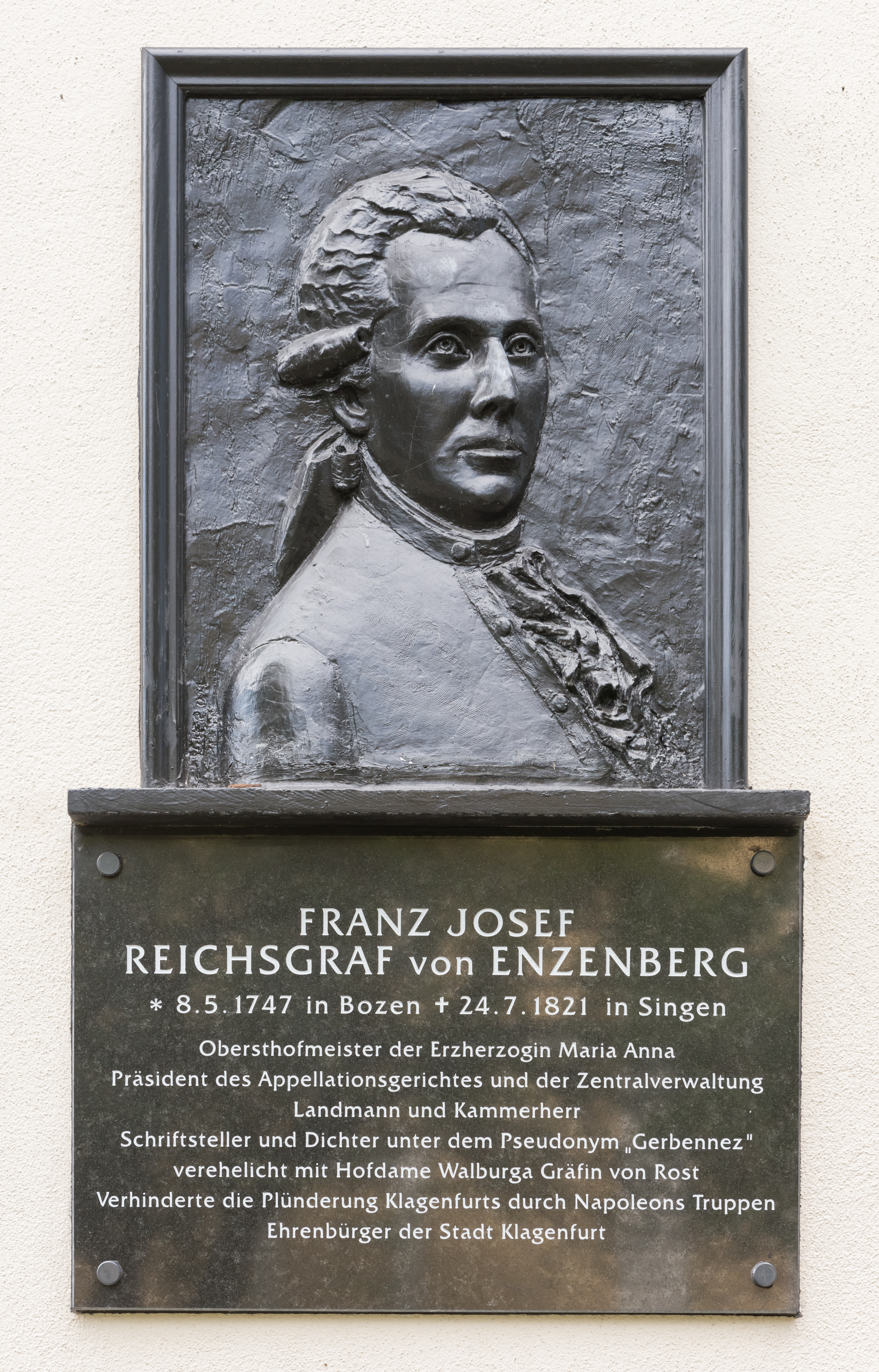 Memorial plaque and relief for Franz Josef Count of Enzenberg on Enzenbergstrasse #5, 6th district Voelkermarkter Vorstadt, Klagenfurt, Carinthia, Austria, EU